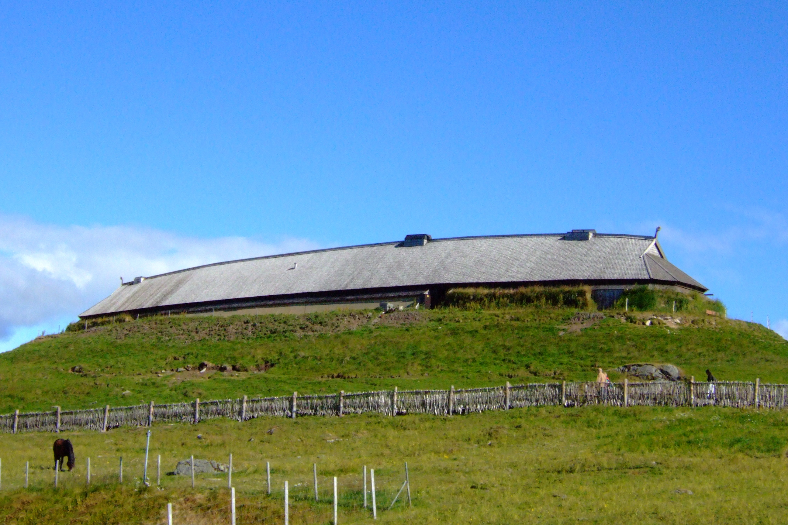 Chieftains house